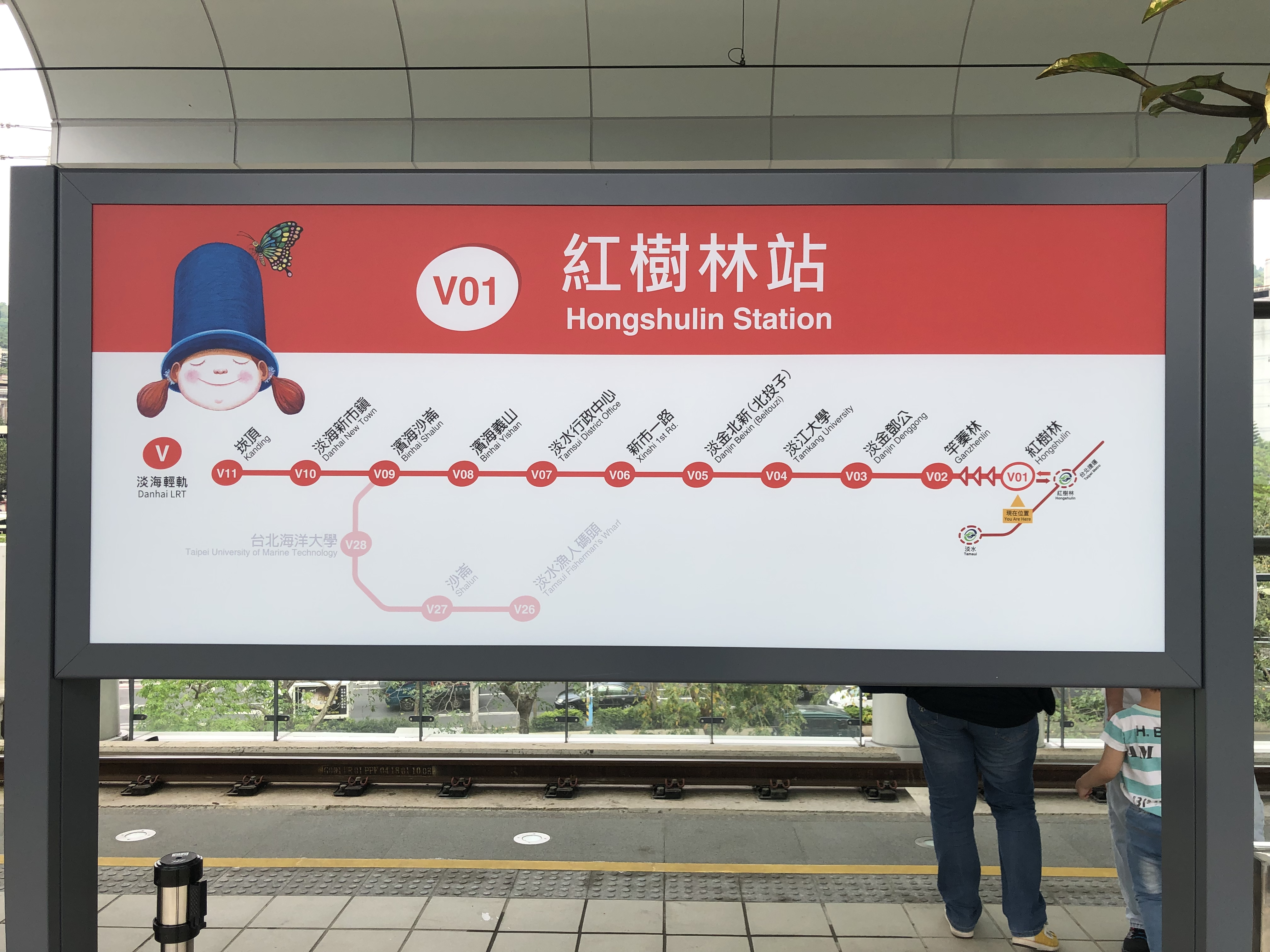 Route map on the platform of Danhai LRT Hongshulin Station